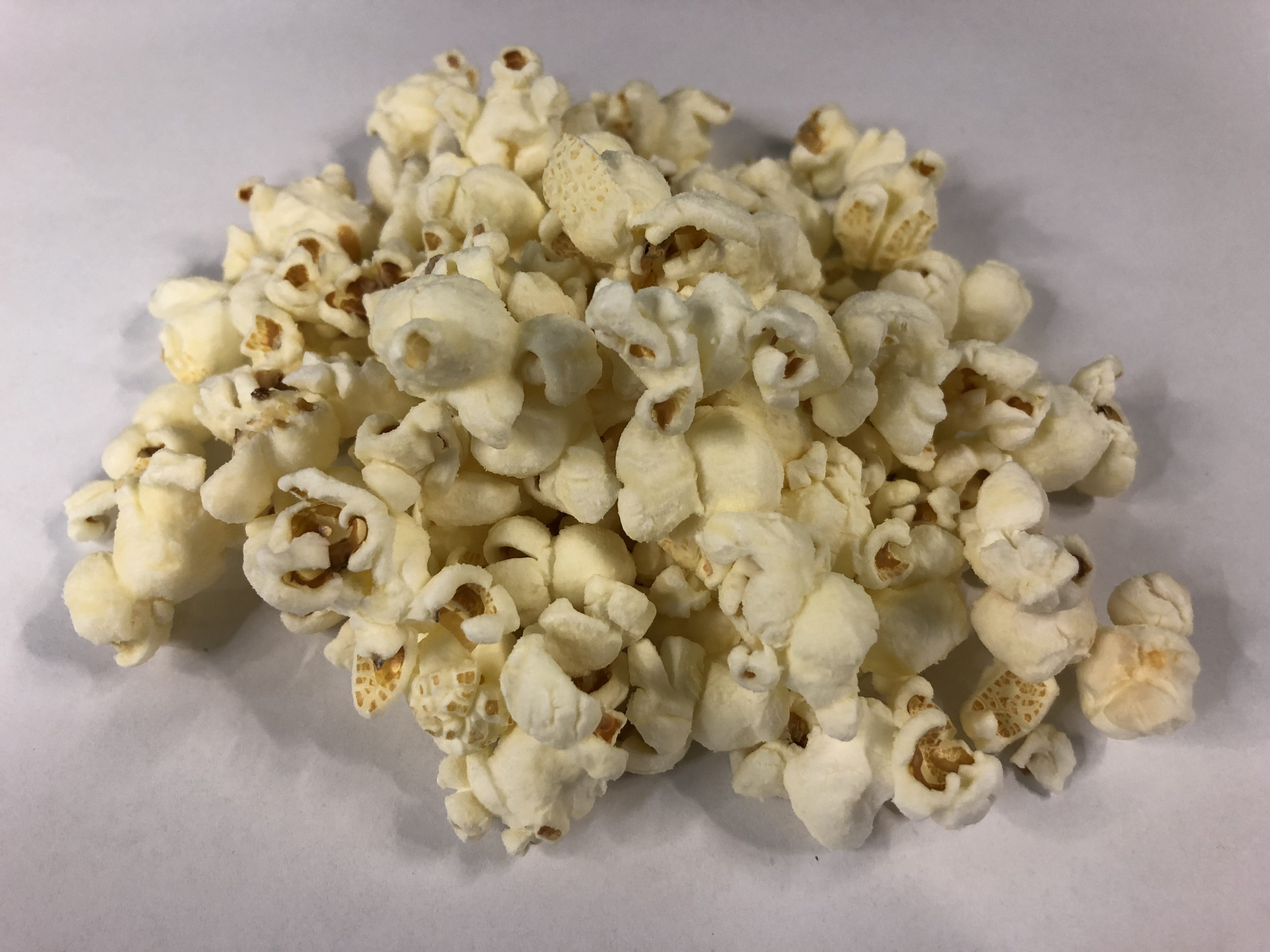 The contents of a bag of Utz Premium White Cheddar Popcorn in the Dulles section of Sterling, Loudoun County, Virginia